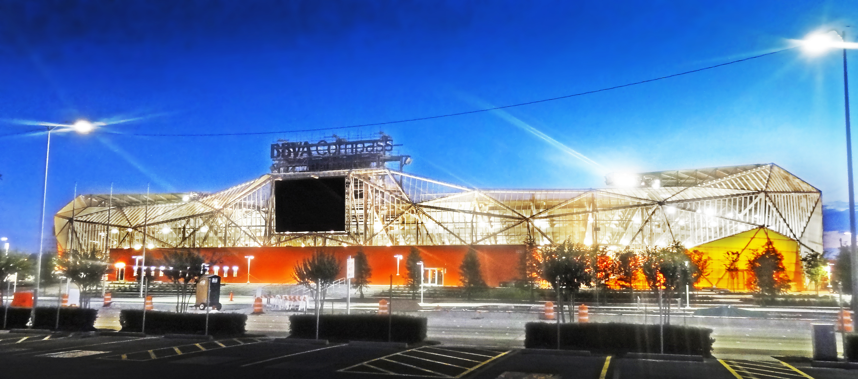 Photo by Paul Duron, Houston Dynamo home at night